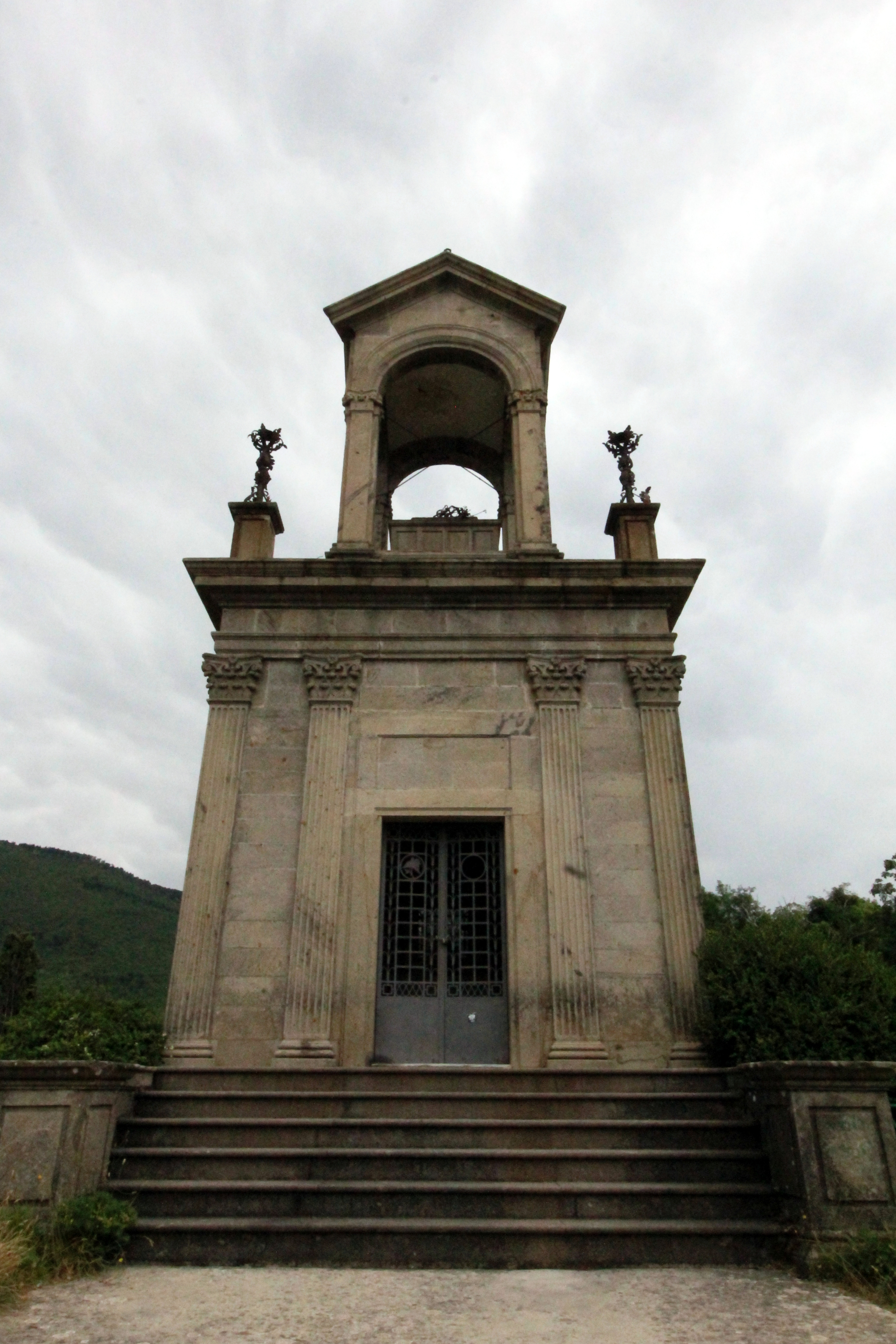 Monumento ai caduti, built 1923-1928, Arcidosso, Province of Grosseto, Tuscany, Italy